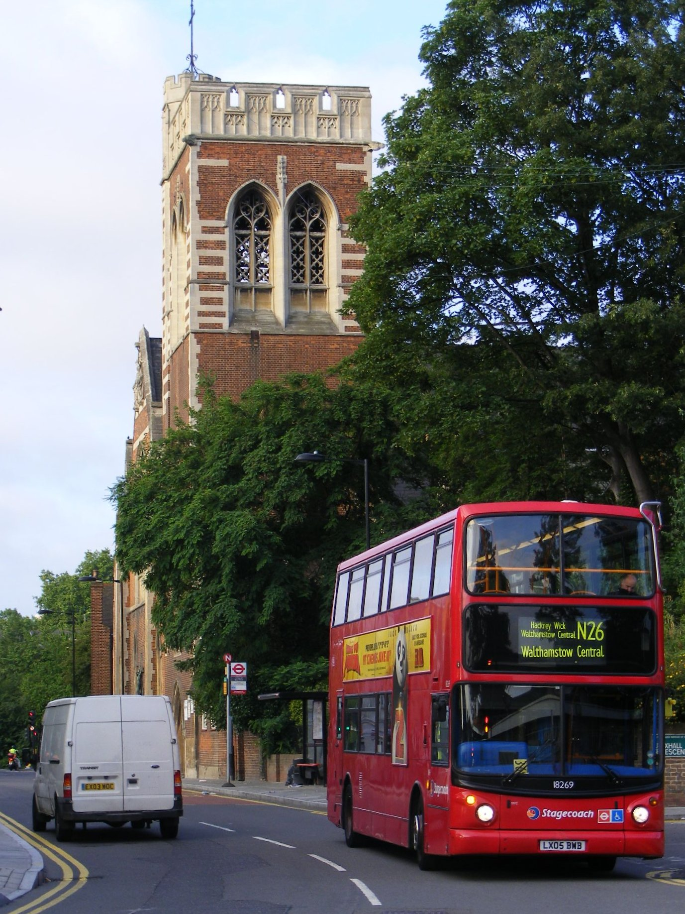 The N26 leaves stop N after picking up. This bus stop is unusual in only serving a night bus. Terminating 30 buses also stop here for alighting passengers but of course the stop only carries an N26 E-plate (or their modern equivalent). BW garage.